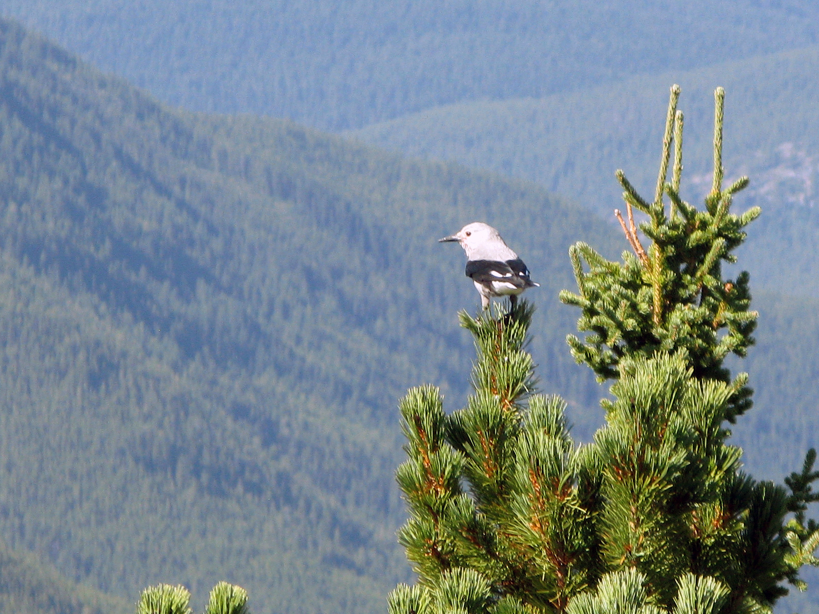 Clark's Nutcracker, Sulphur Mountain, Banff National Park, Alberta, Canada